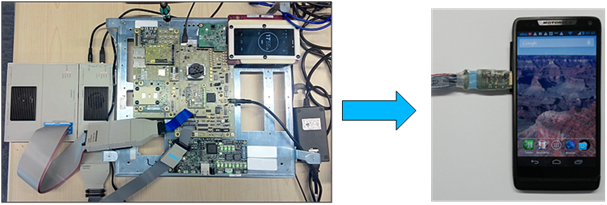 Thi picture shows the debug environment, both dedicated and functional